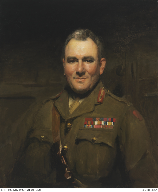 Brigadier General Harold Elliott, 1921, by William Beckwith McInnes